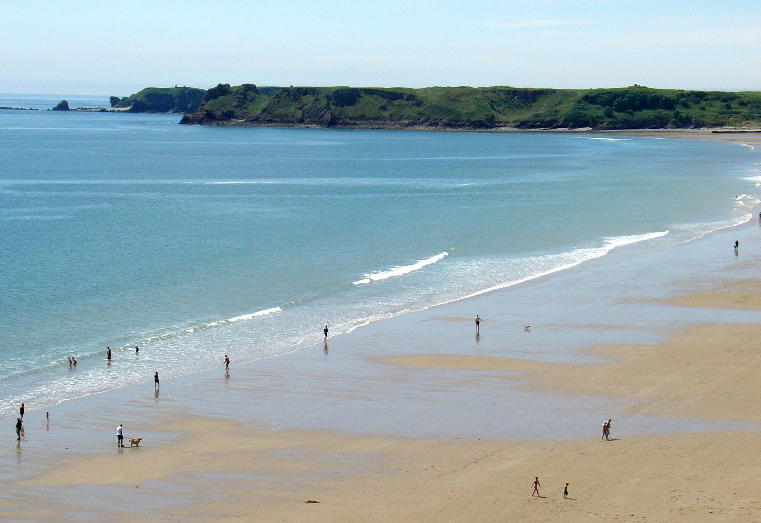 View of Tenby Beach, taken by Aeronian on 4 June, 2007 with Sony DSC VI digital camera Aeronian's images User:Aeronian/Images